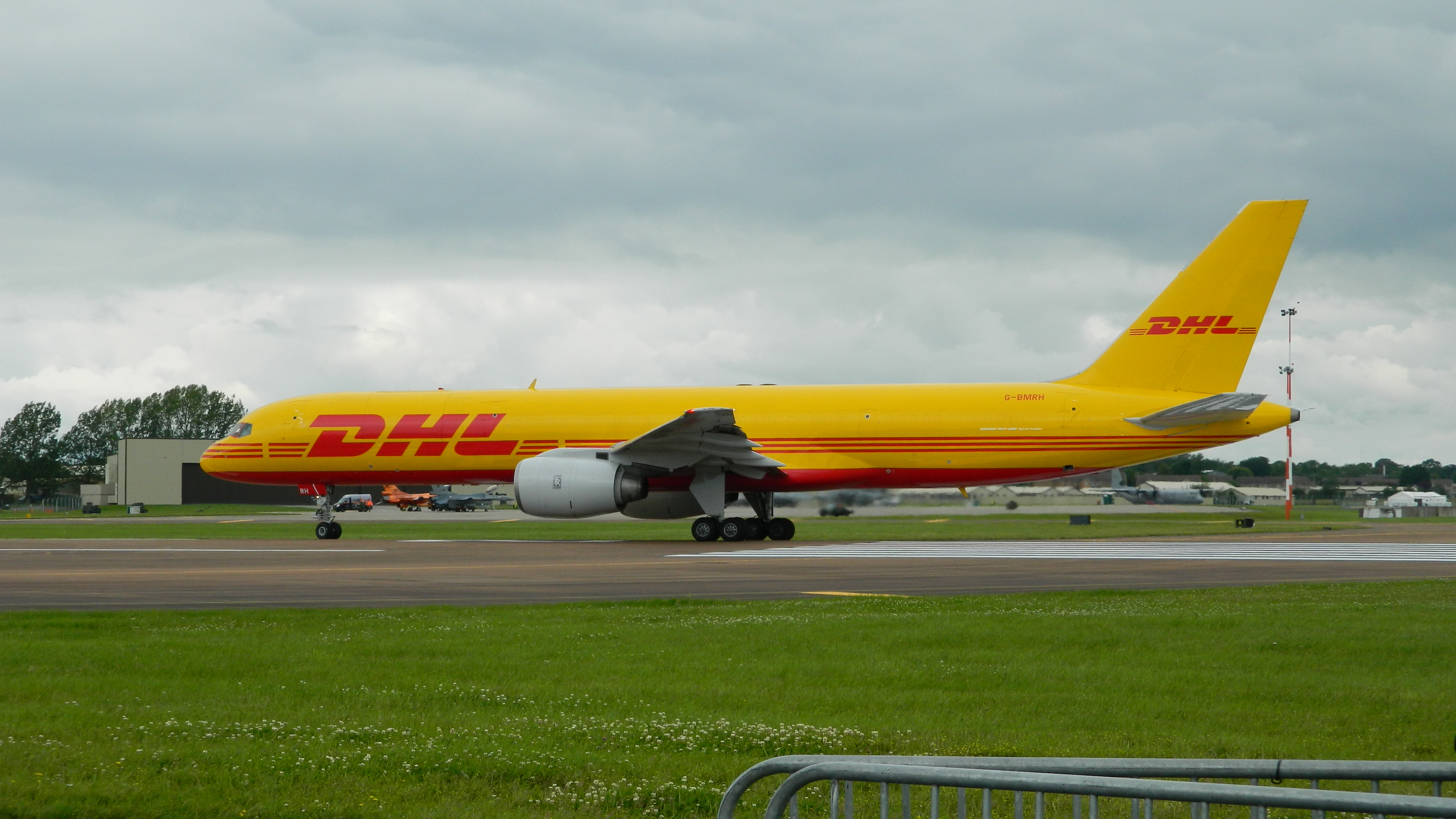 "G-BMRH" is a 1989-built Boeing 757-200 operated by DHL Air Limited and seen departing from RAF Fairford following the 2012 Royal International Air Tattoo.